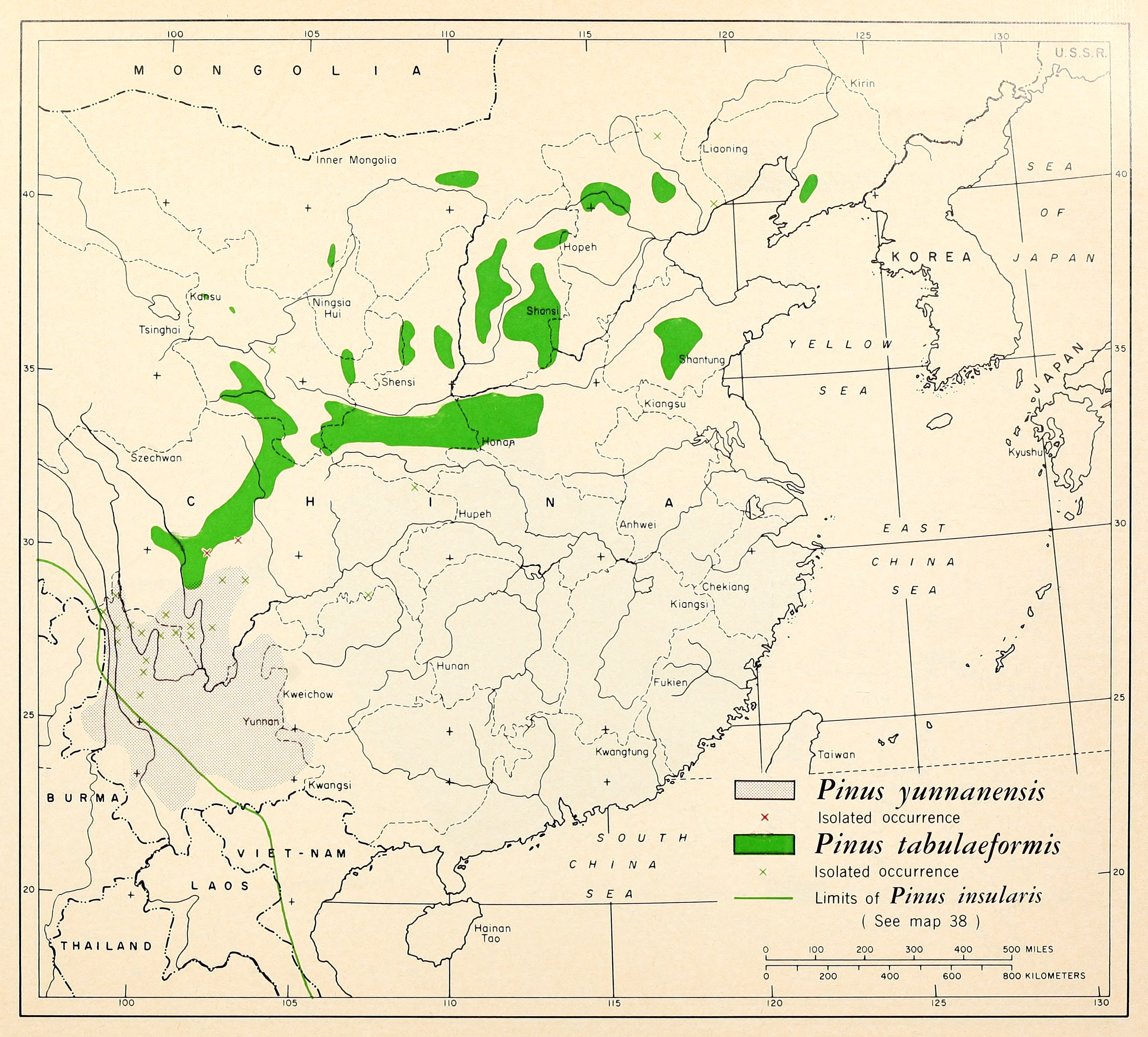 Map 37 Pinus yunnanensis & Pinus tabulaeformis distribution